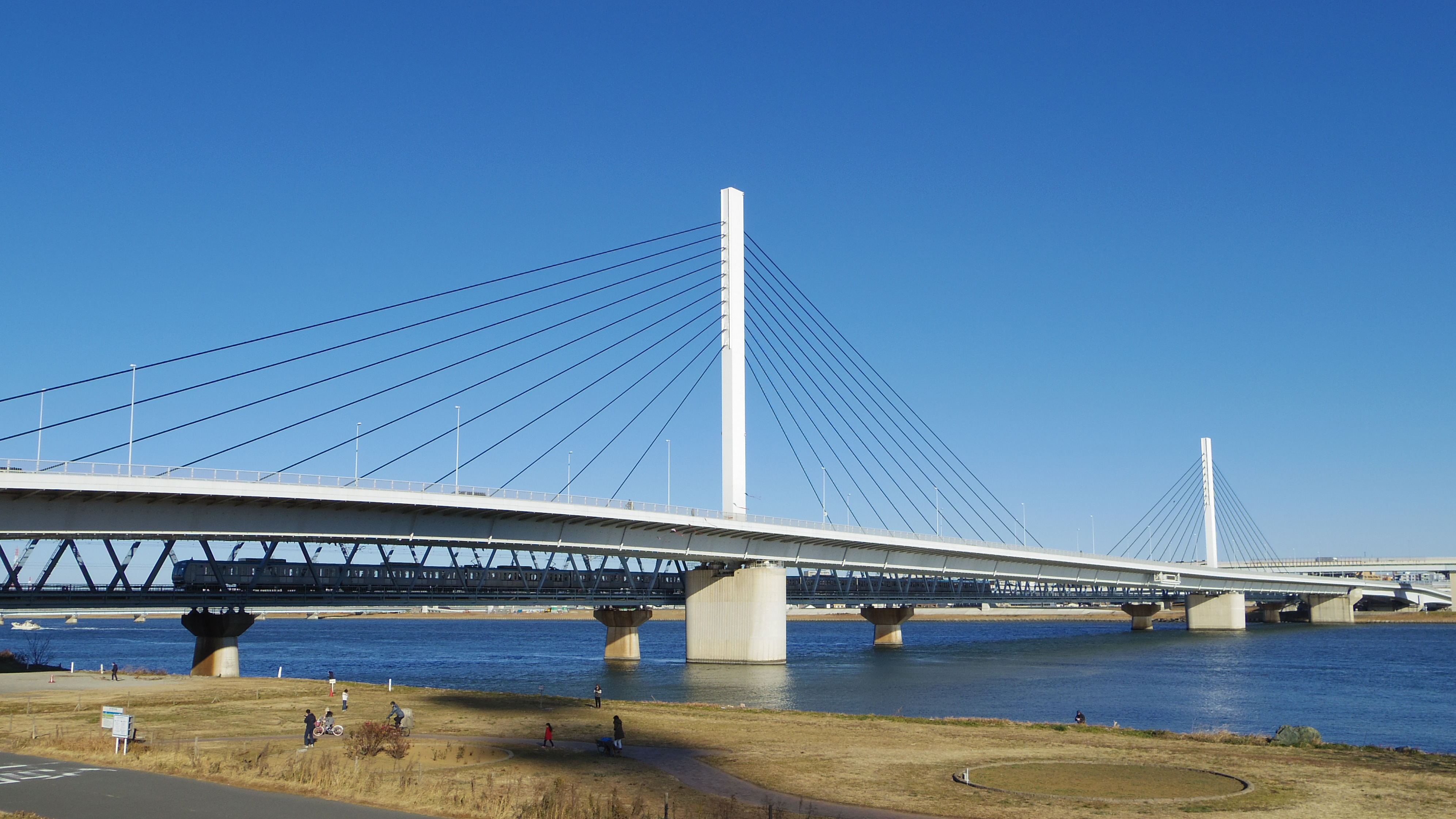 Kiyosuna Bridge(Kōtō city and Edogawa city, Tokyo, Japan)